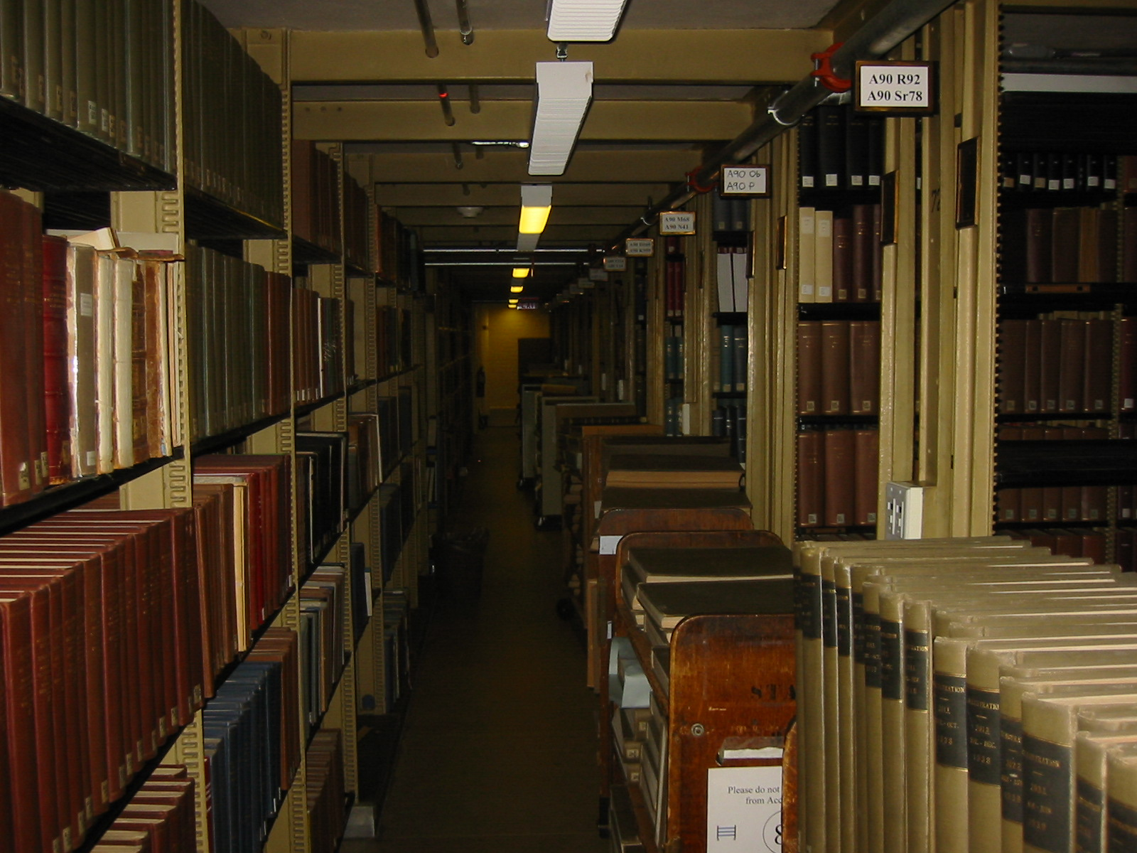 The bookstacks in Sterling Memorial Library at Yale University.